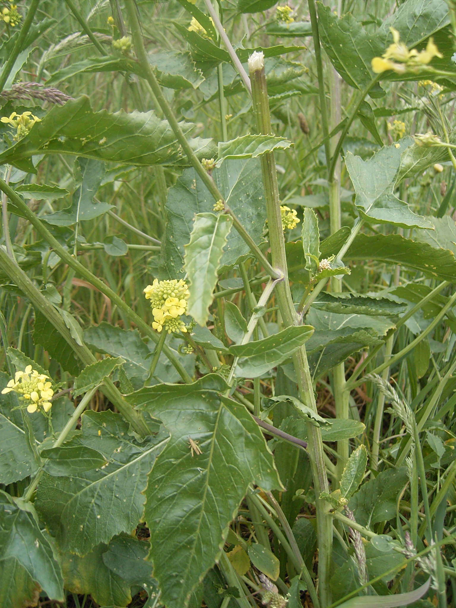 This photo shows the leaves of Rapistrum rugosum